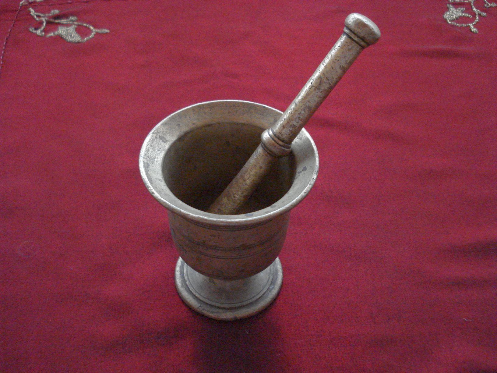 Mortar and pestle that used in pharmacy in ancient